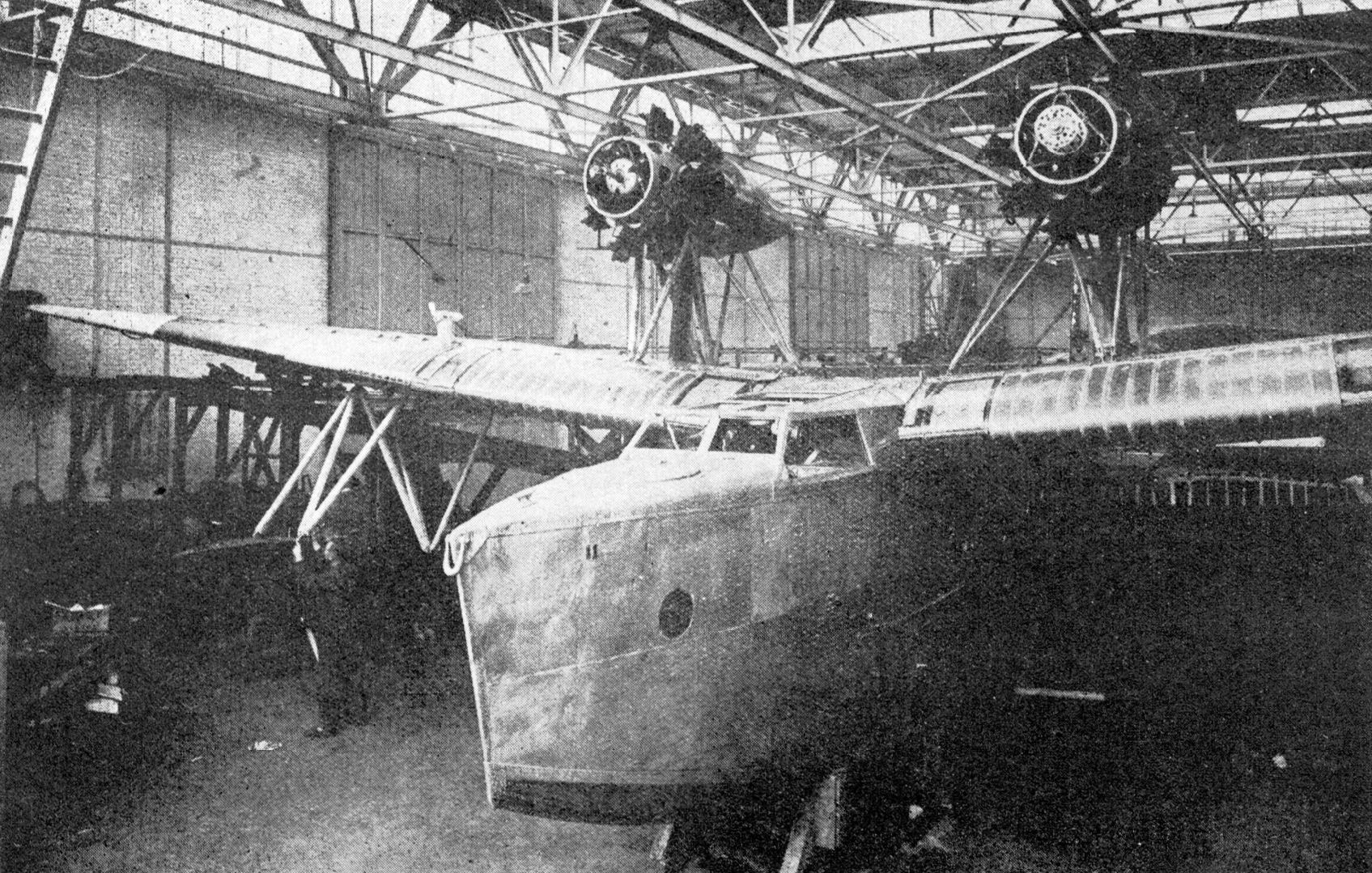 Rohrbach Rostra photo from Le Document aéronautique January,1929